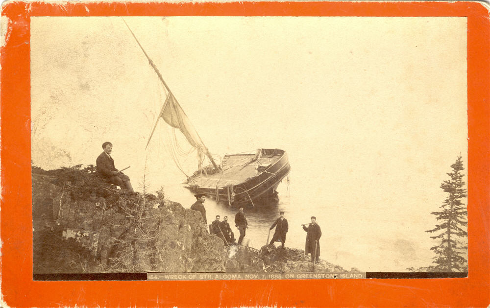 Title: 154 - Wreck of Str. Algoma Nov 7, 1885. On Greenstone Island Date: Nov. 7, 1885 Creator: On back of Photo - "A. F. M." - possibly A. F. Mills? Description: Seven unidentified men in photograph. Reference: Accession 1991-01, Item 160 This photograph is in the public domain as all copyright has expired.